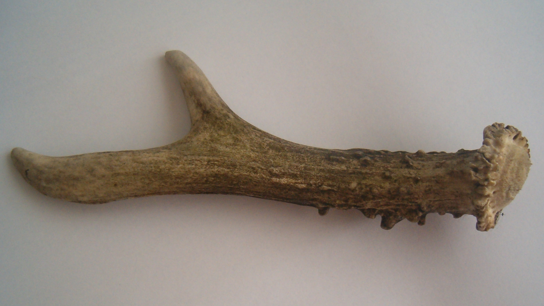 Roe deer antler Walon: Coine di tchivroû .